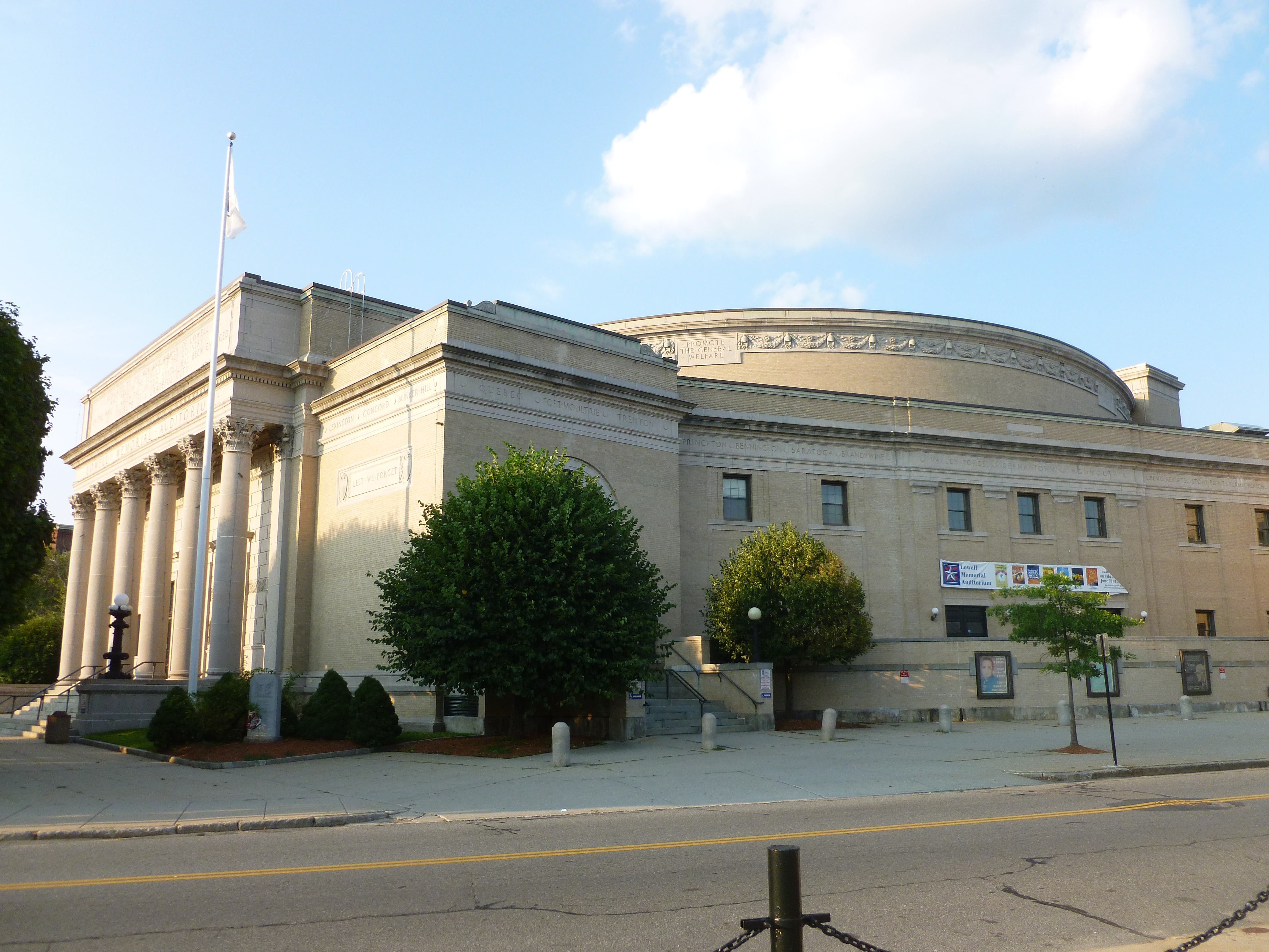 Lowell Memorial Auditorium, located at 50 East Merrimack Street, Lowell, Massachusetts. North and west (front) sides of building shown.